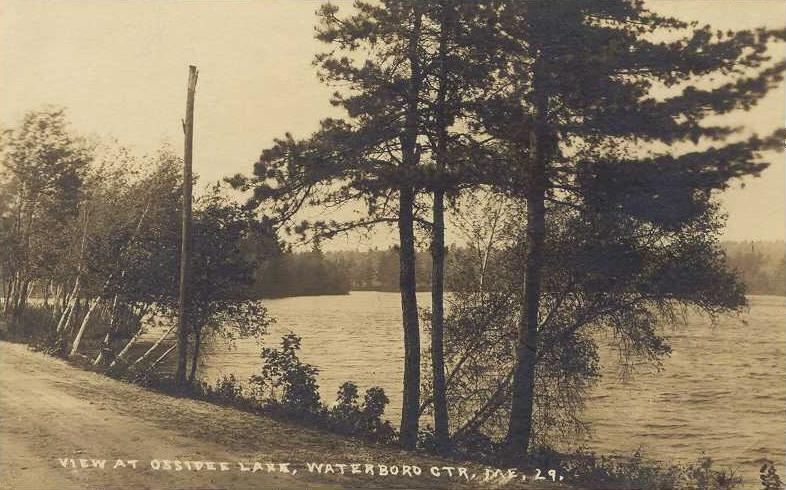 View at Little Ossipee Lake, Waterboro Center, Maine